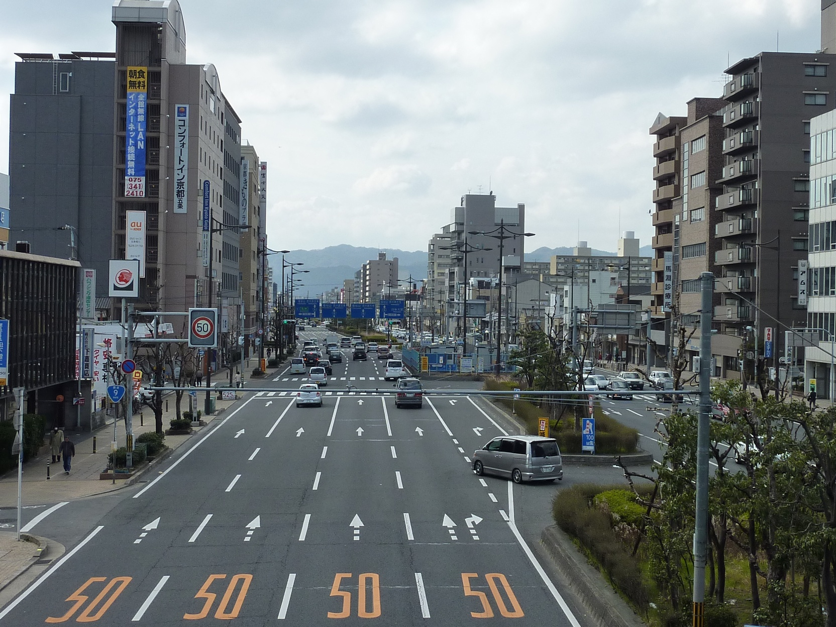 National Route 9 Origin "Horikawa Gojo" - Kyoto, Japan.